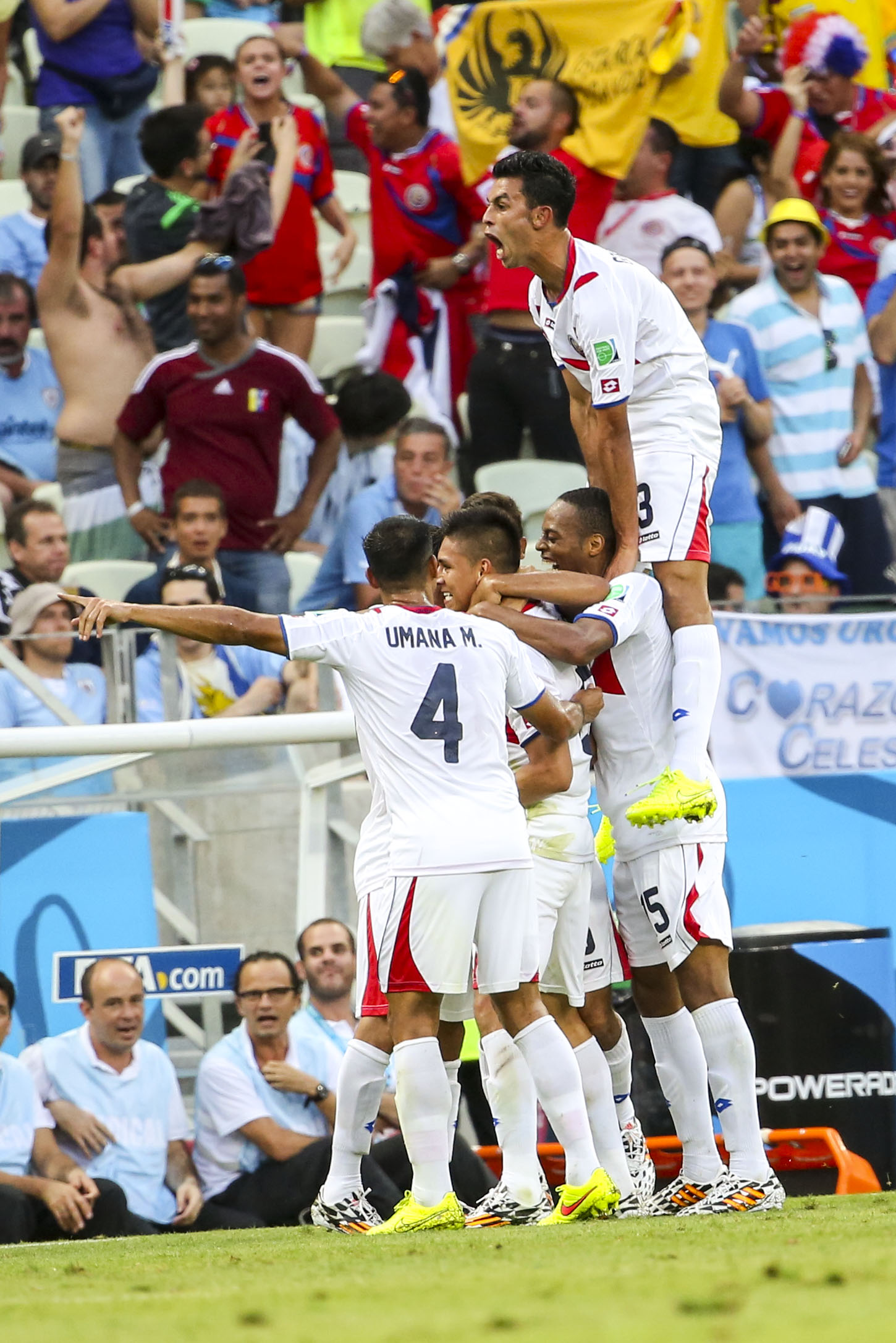 Uruguay and Costa Rica match at the FIFA World Cup 2014-06-14